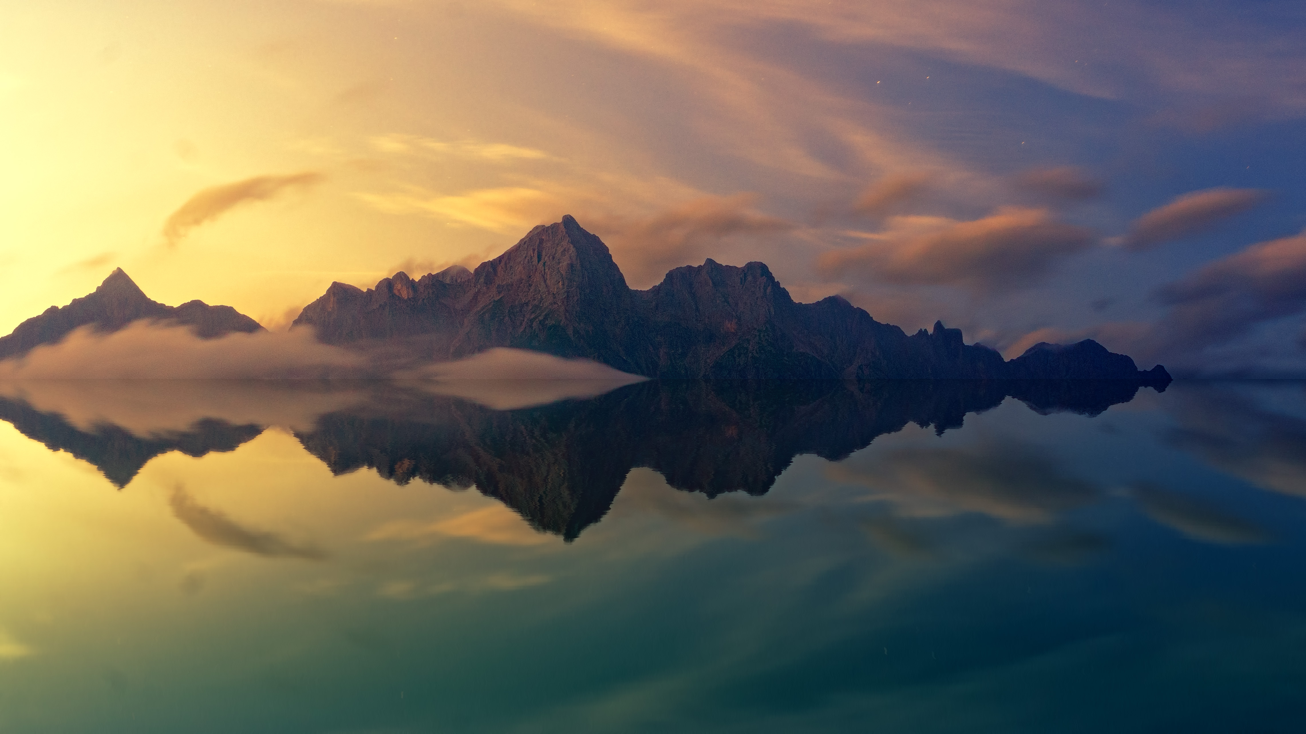 Johannes Plenio 2017-05-24